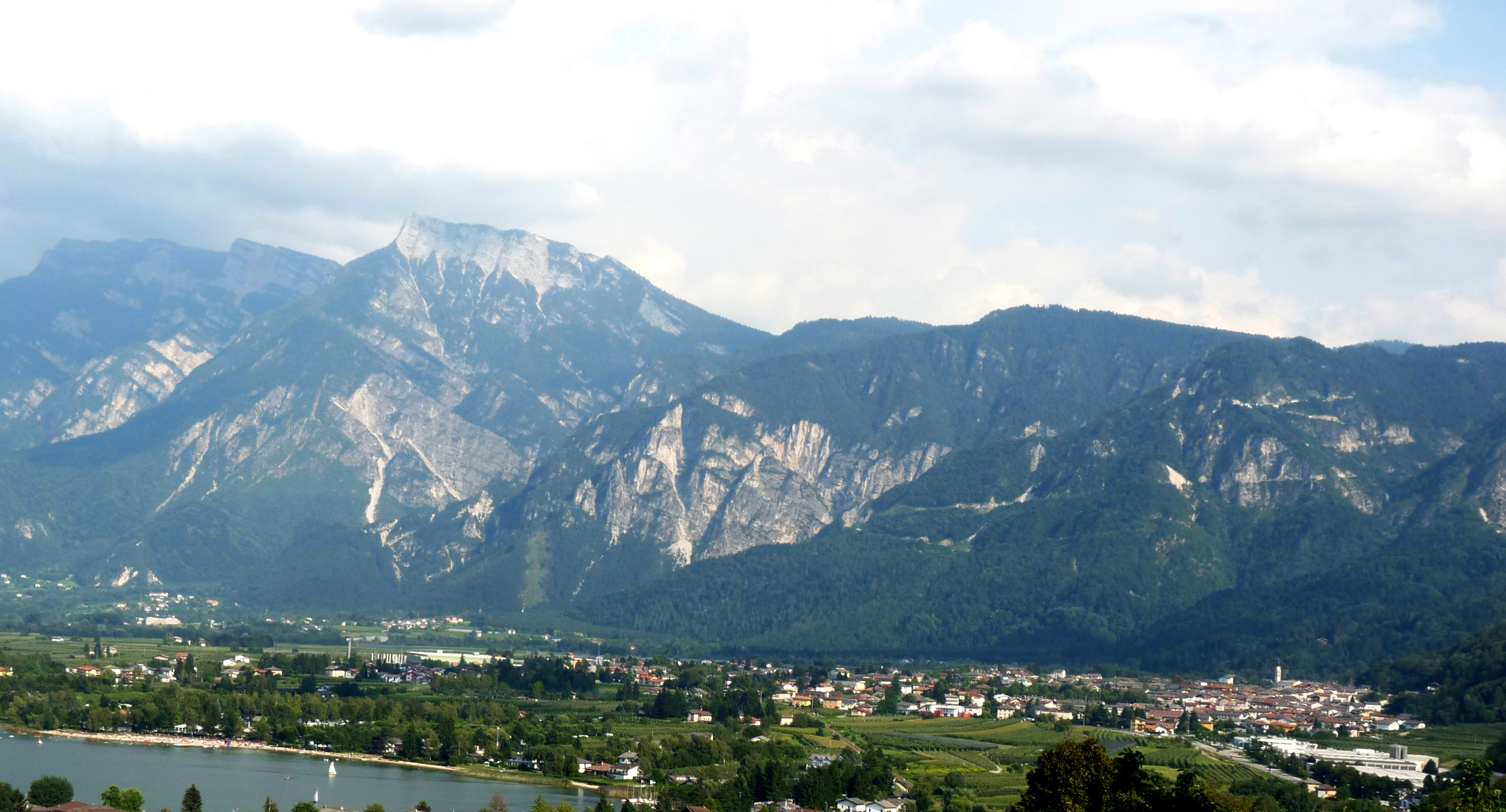 Caldonazzo (Italy, province of Trento): panorama